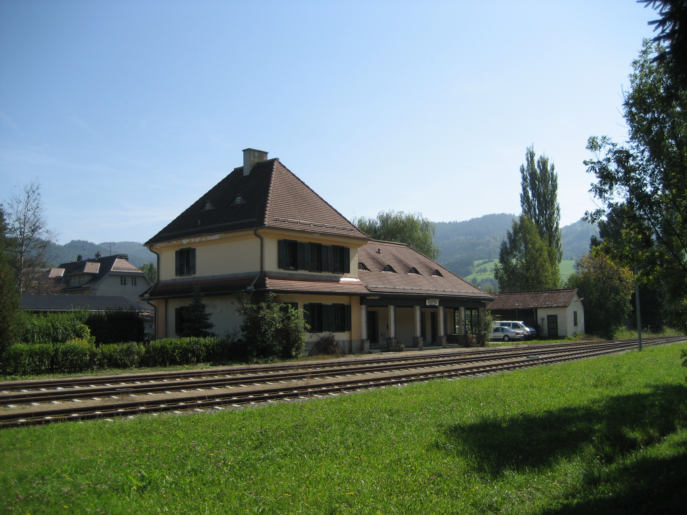 Train station Gresten in Lower Austria